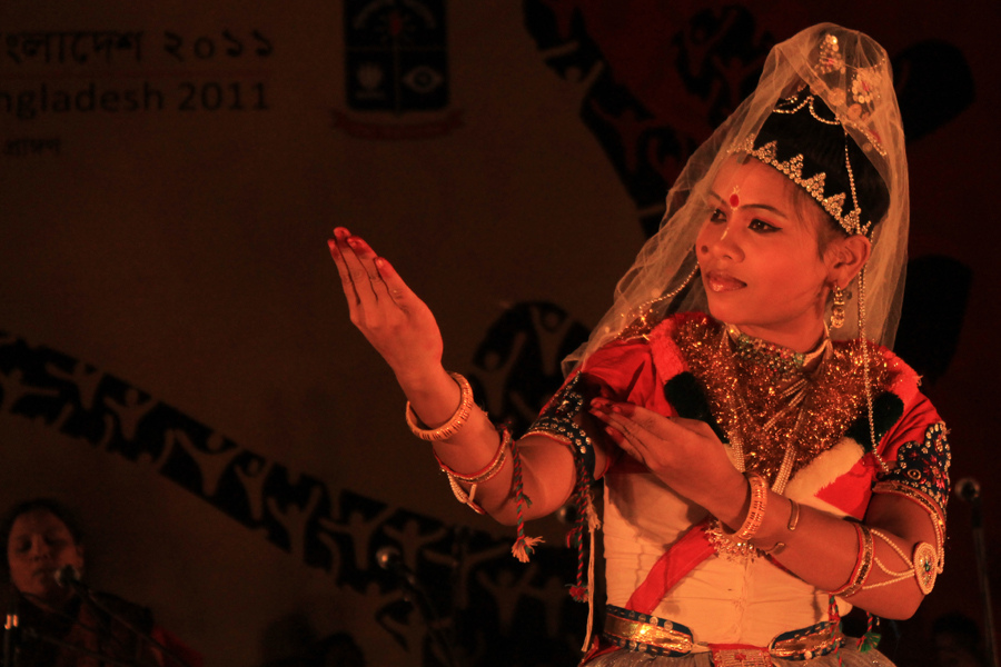 Bangladeshi dancer.